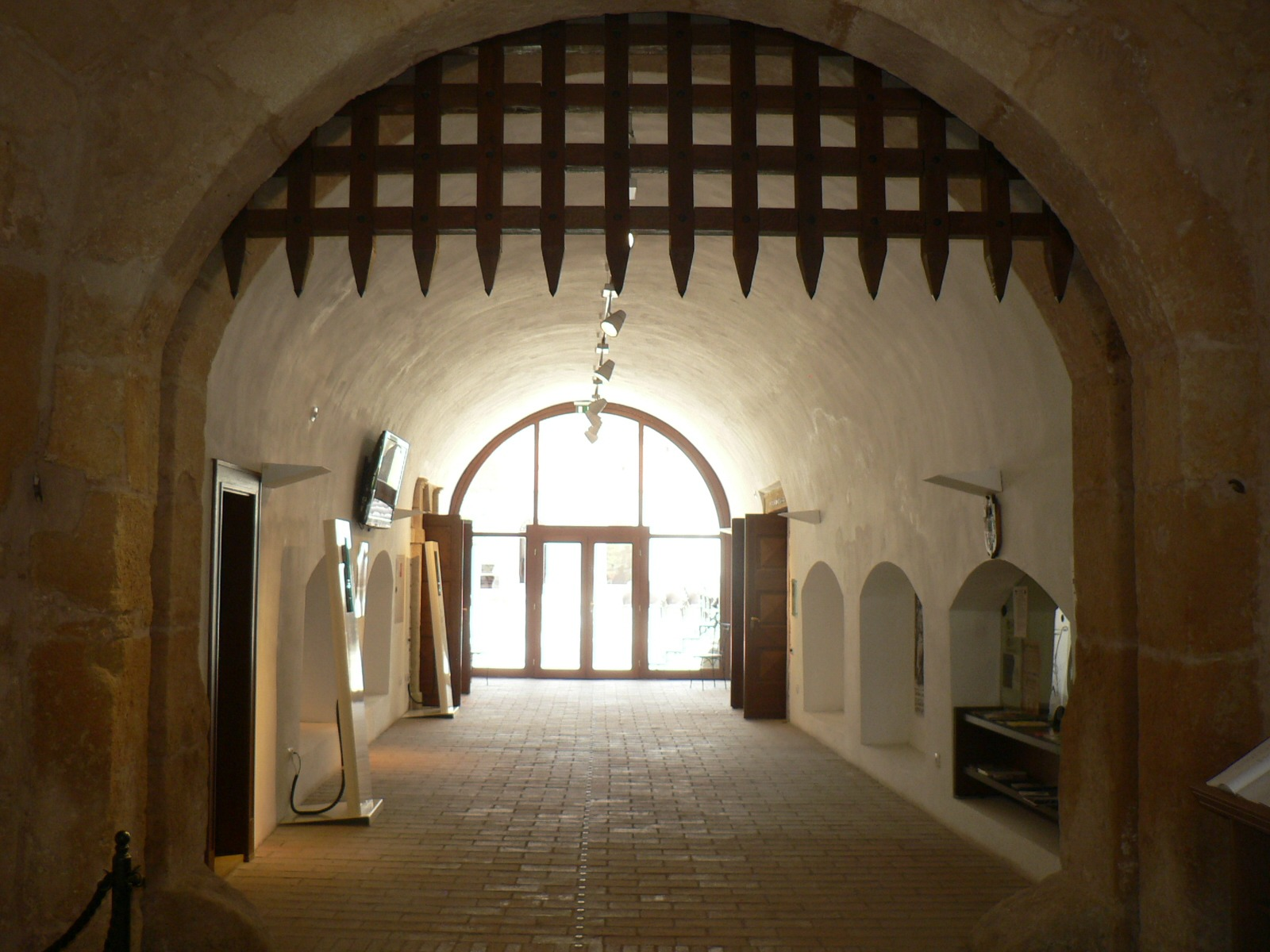 Várpalota - a Thury-vár bejárati szárnya